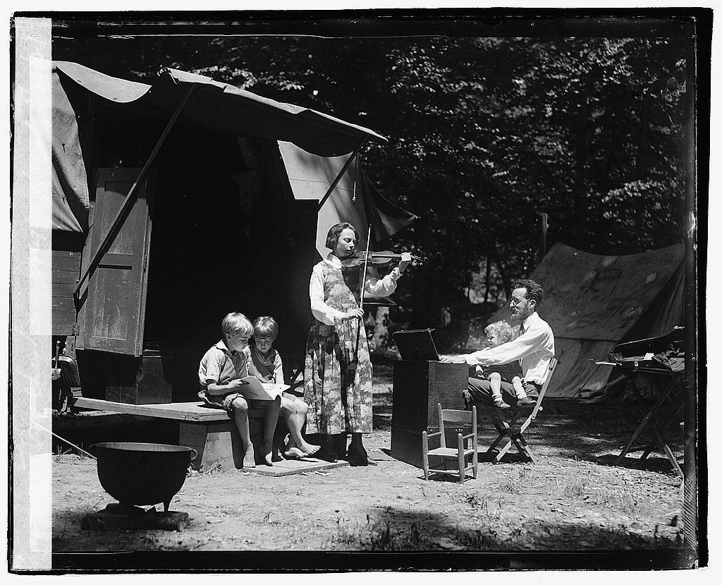 Prof. Chas. Louis Seeger & family, 5/23/21